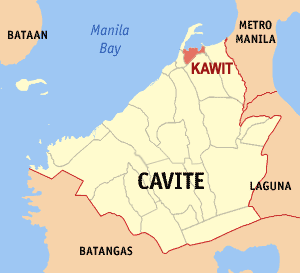 Map showing the location of the Municipality of Kawit — in Cavite Province, the Philippines.